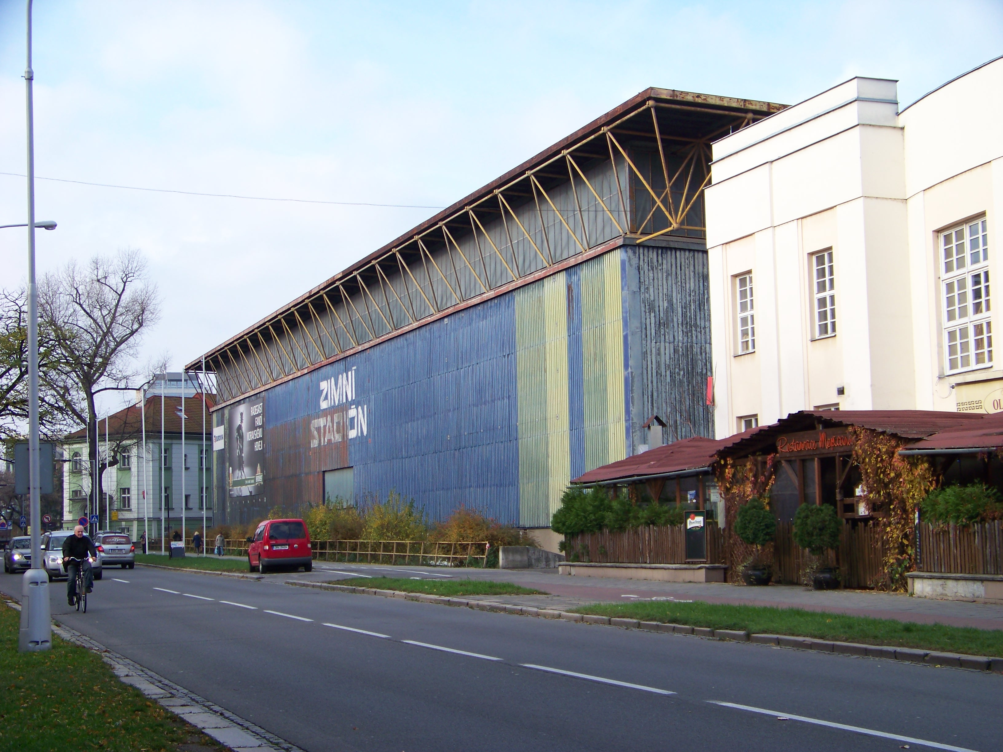 Olomouc-Nová Ulice, Olomouc District, Olomouc Region, Czech Republic. Hynaisova 1091/9a, ice hockey stadium.